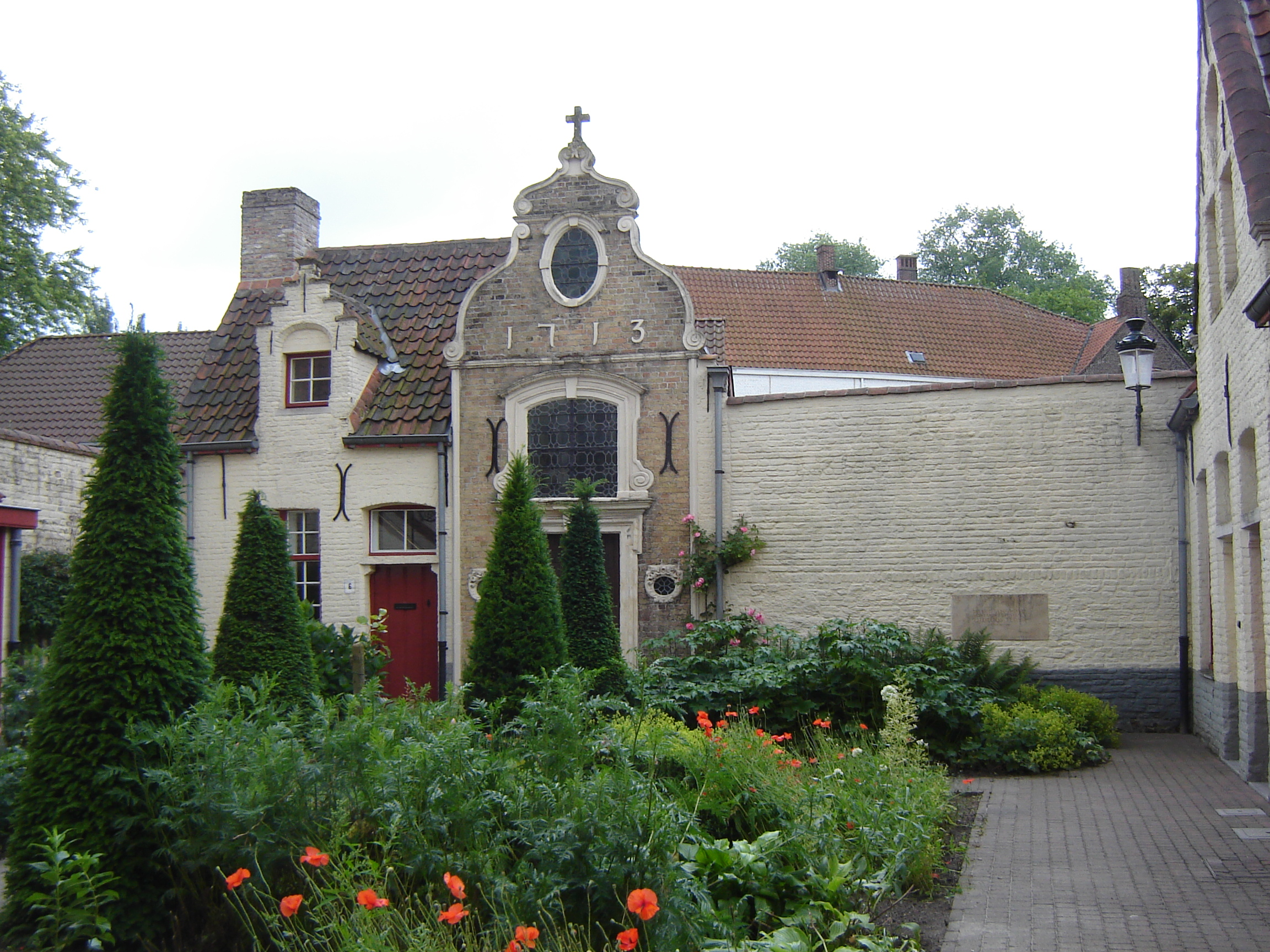 Godshuis De Vos, almshouse in Brugge (in Noordstraat street). Brugge, West-Flanders, Belgium.